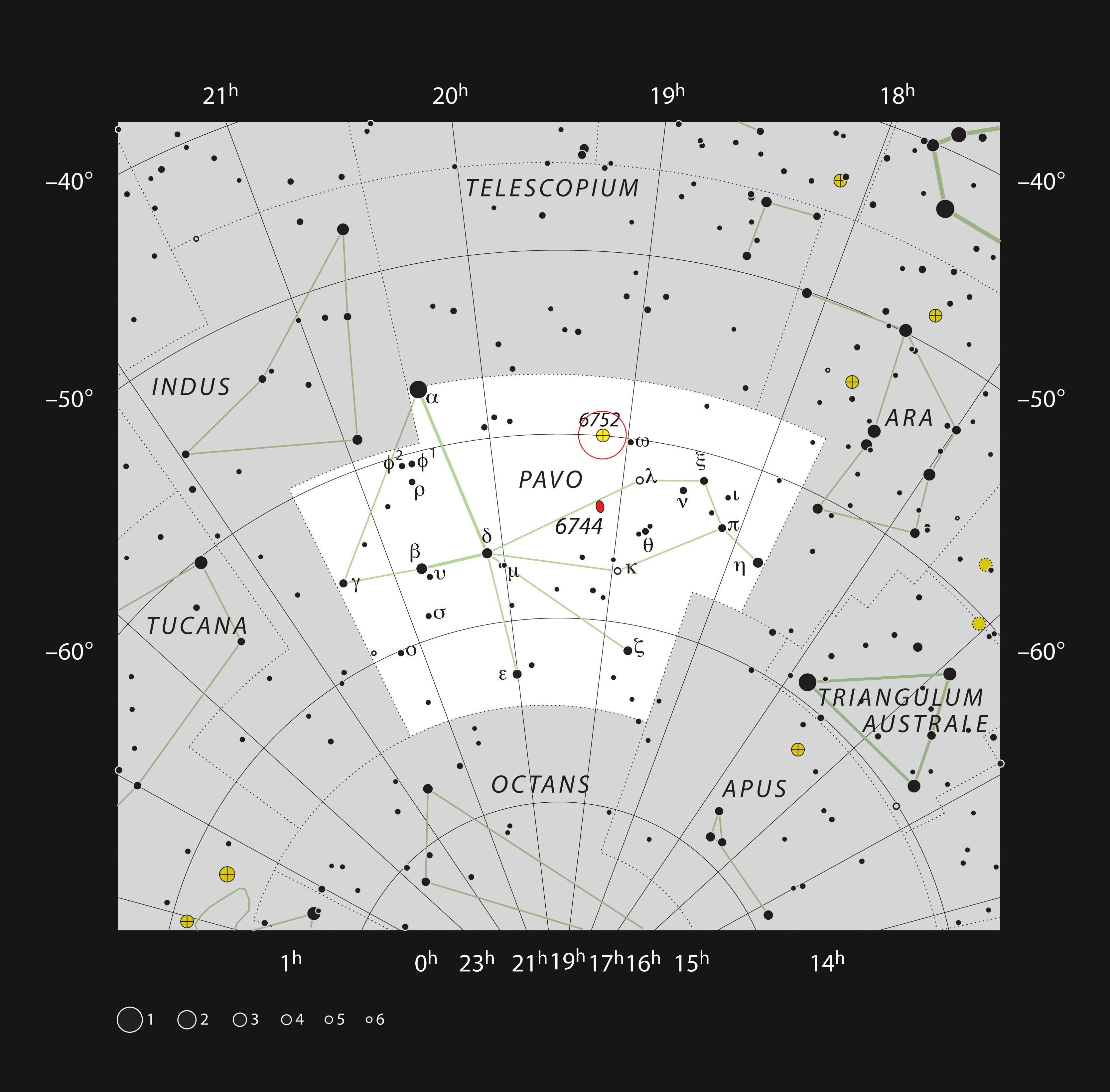 This chart shows the location of the globular star cluster NGC 6752 in the southern constellation of Pavo (The Peacock). All the stars visible with the unaided eye on a clear and dark night are shown and NGC 6752 is marked with a red circle. Studies of this cluster using ESO’s Very Large Telescope have unexpectedly revealed that many of the stars do not undergo mass-loss at the end of their lives.